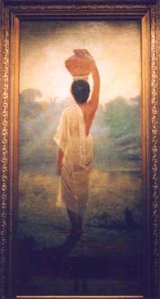 It is an oil painting painted in 1894 by C. Raja Raja Varma, the younger brother of Ravi Varma. The artist's study of life and landscape in his paintings is noteworthy. This scene was sketched by the artist on his way back from Chamundi hills and later painted.